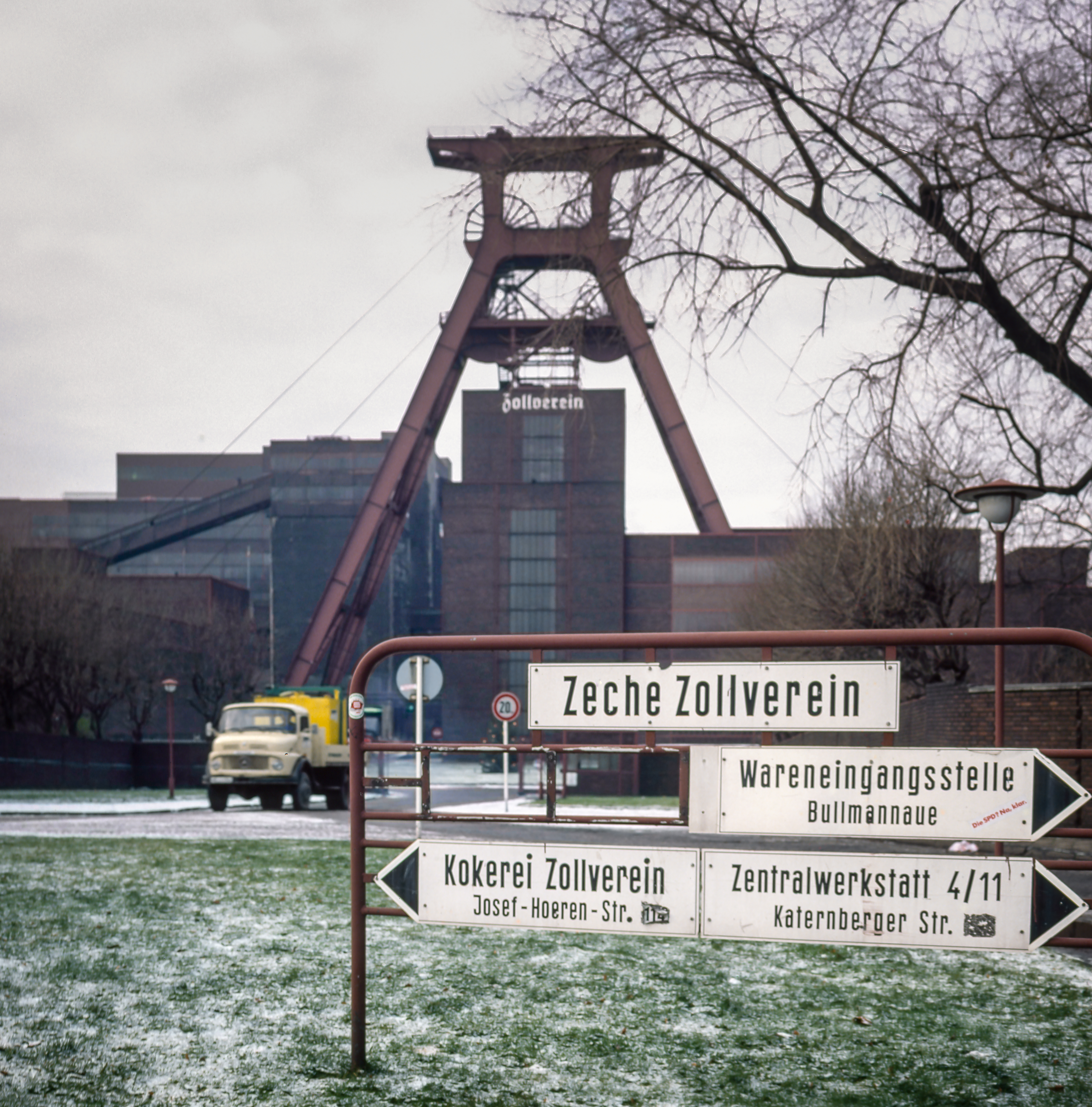 Zeche Zollverein - December 23, 1986: final working day - Essen, Germany